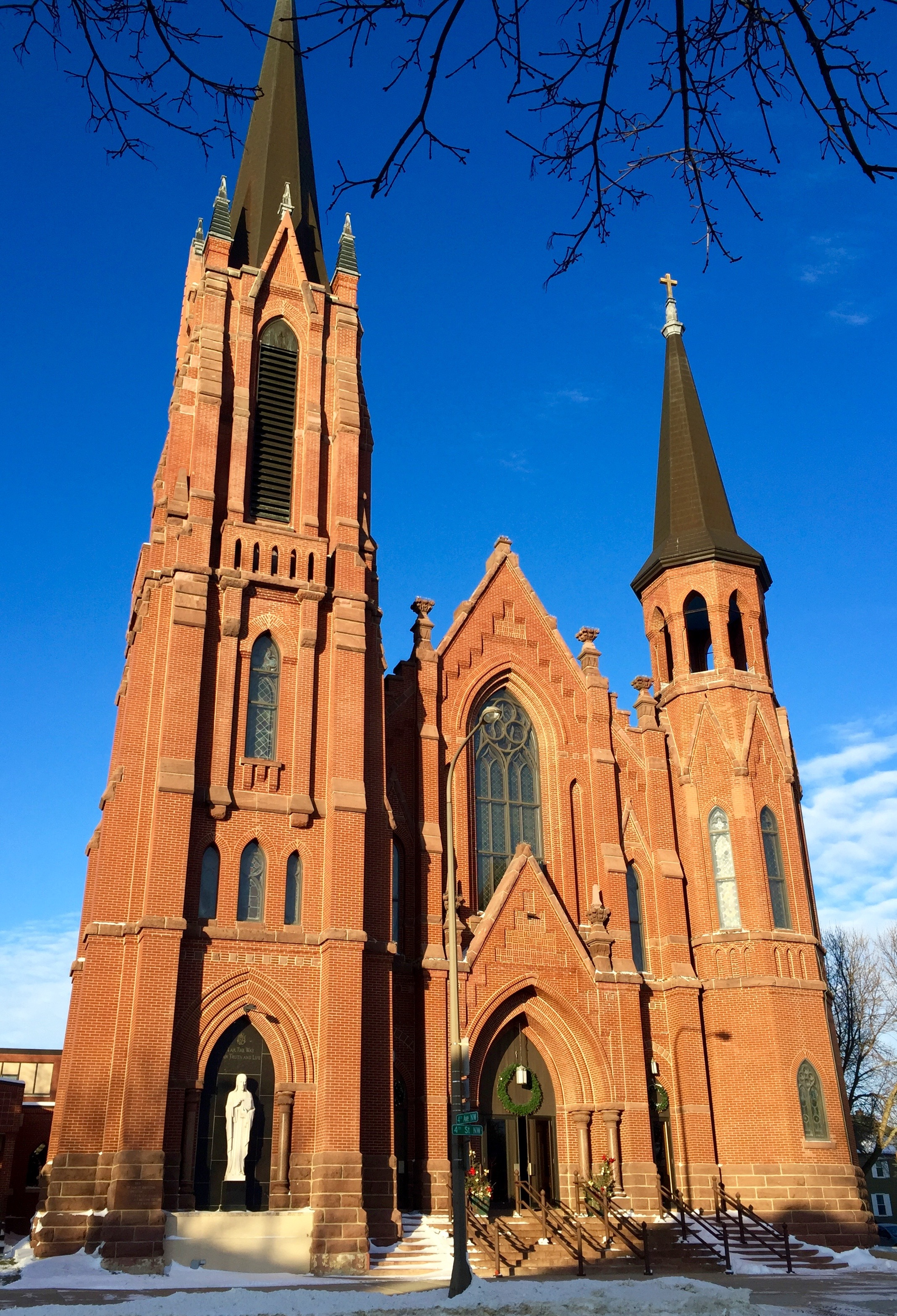 St. Augustine Catholic Church in Austin Minnesota (2016)